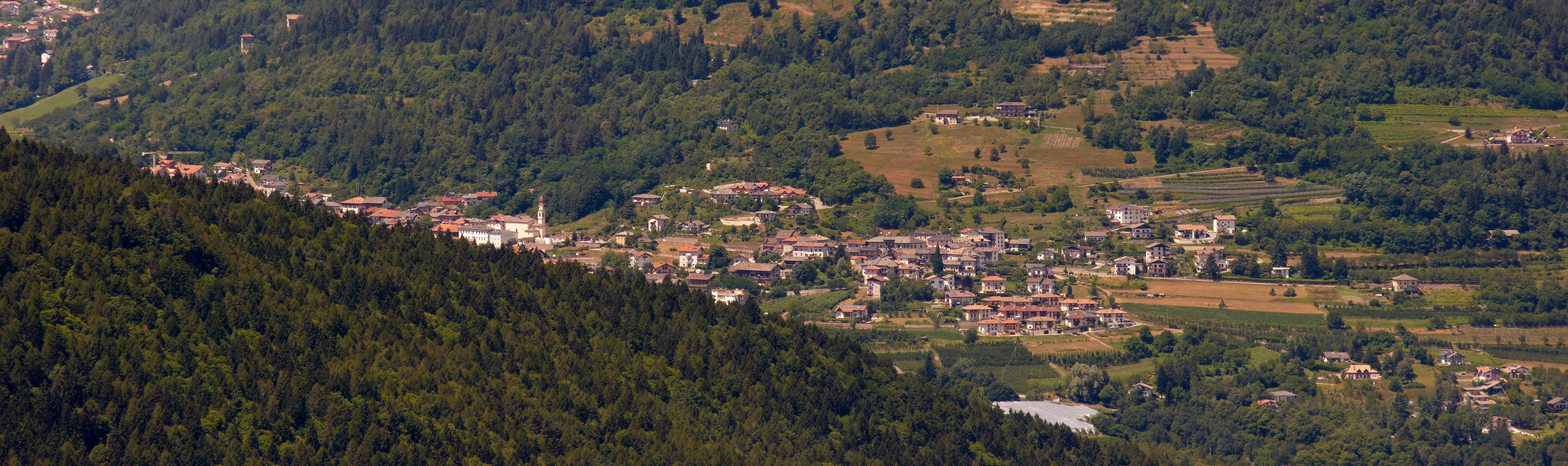 Bosentino (Italy): panoramic view from south-east (from the sightseeing point of the Menador road)